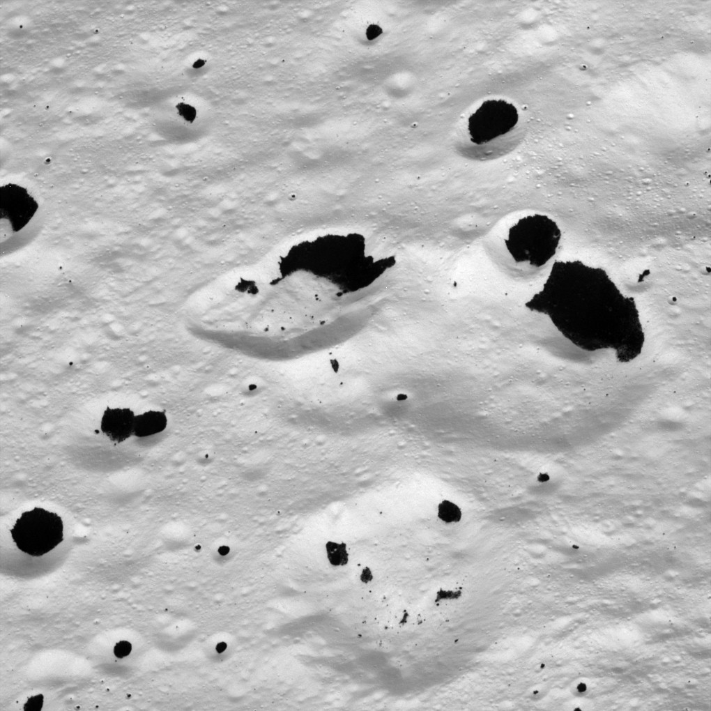 Dark material splatters the walls and floors of craters in the surreal, frozen wastelands of Iapetus. This image shows terrain in the transition region between the moon’s dark leading hemisphere and its bright trailing hemisphere. The view was acquired during Cassini's only close flyby of the two-toned Saturn moon. The image was taken on Sept. 10, 2007 with the Cassini spacecraft narrow-angle camera at a distance of approximately 6,030 kilometers (3,750 miles) from Iapetus. Image scale is 36 meters (118 feet) per pixel.